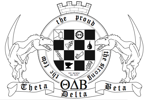 Theta Delta Beta Coat of Arms